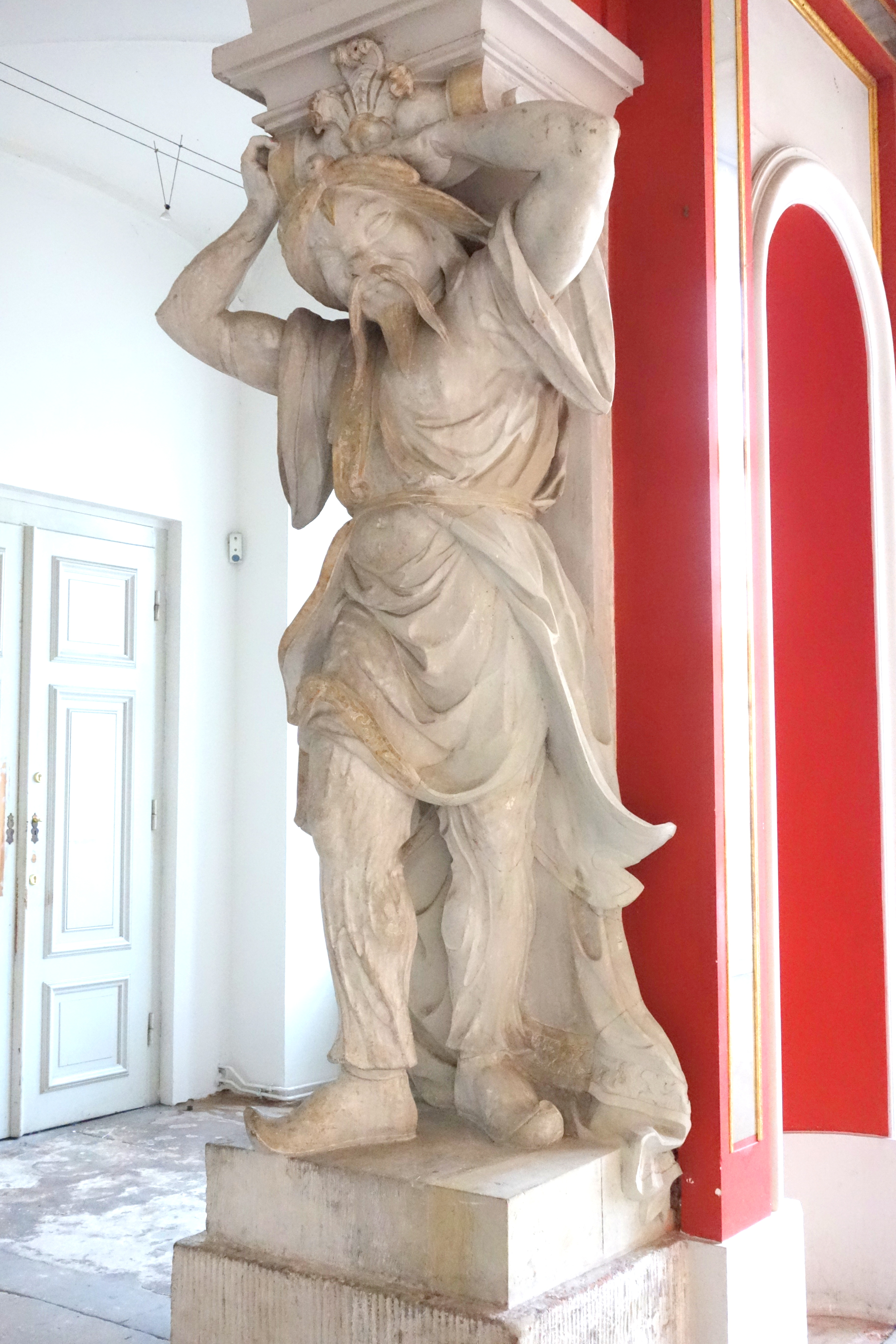 Architectural detail in the Japanisches Palais, Dresden, Germany. All artwork is old enough so that it is in the public domain.